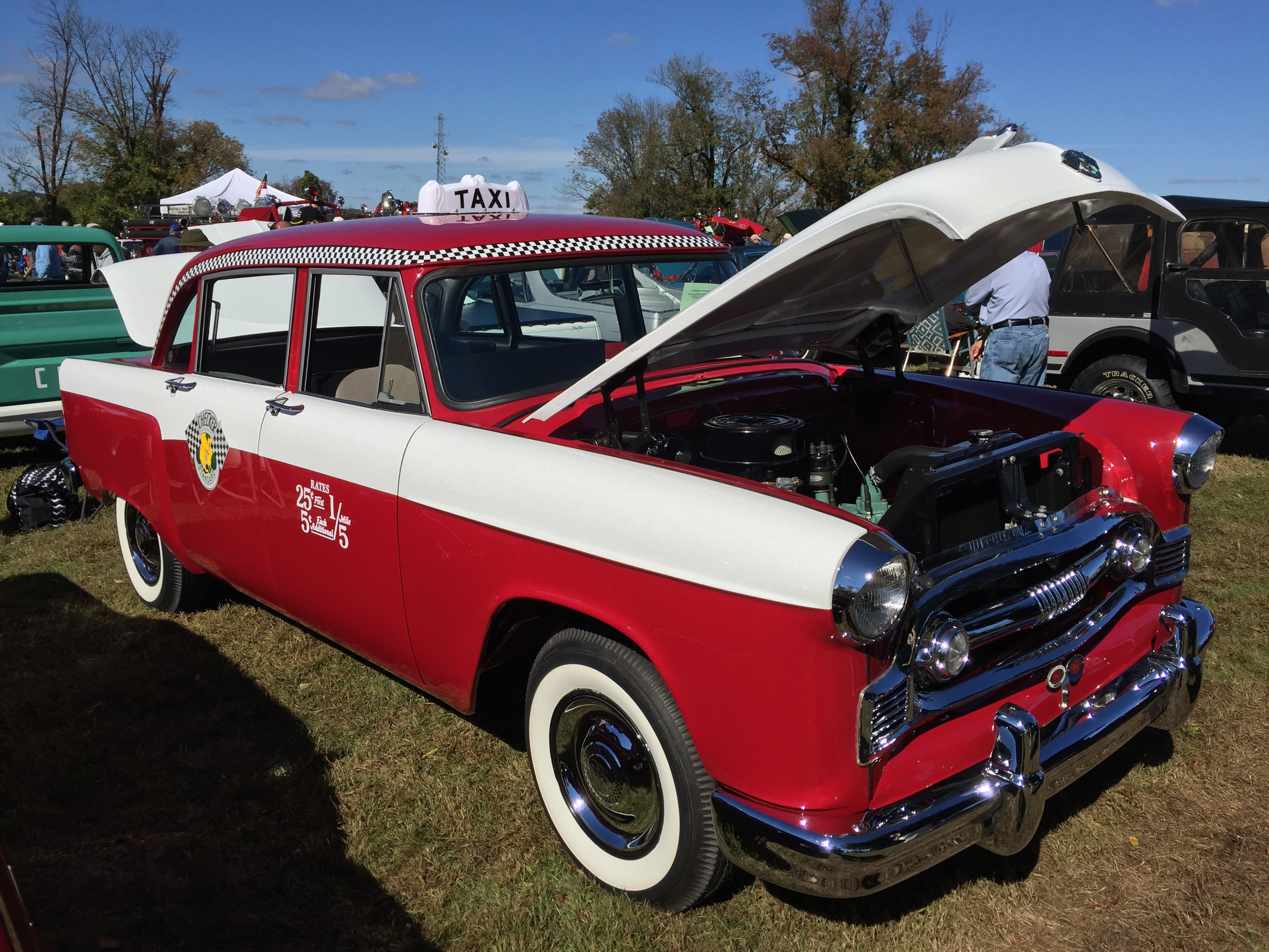 1958 Checker Standard, series A8 sedan finished in red and white taxi livery. Picture taken on the show field of the Antique Automobile Club of America (AACA) 2015 Eastern Regional Fall meet that is held every October in Hershey, Pennsylvania.